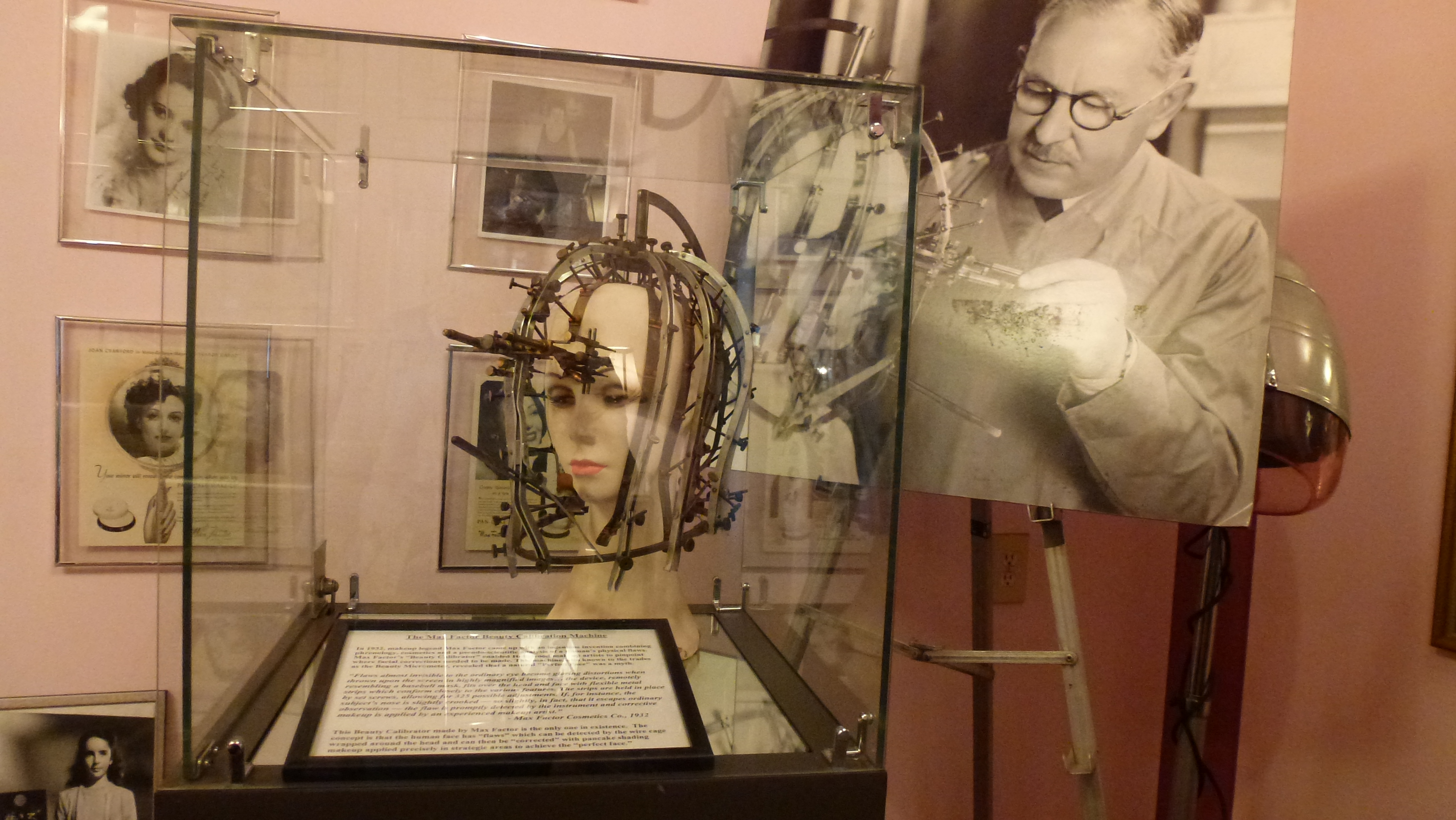 Hollywood Museum, located in the Max Factor building, 1660 N. Highland Ave. (at Hollywood Blvd) in Los Angeles, California. Displays feature artifacts and showrooms of Max Factor, including movie star memorabilia, costumes, makeup and photos.